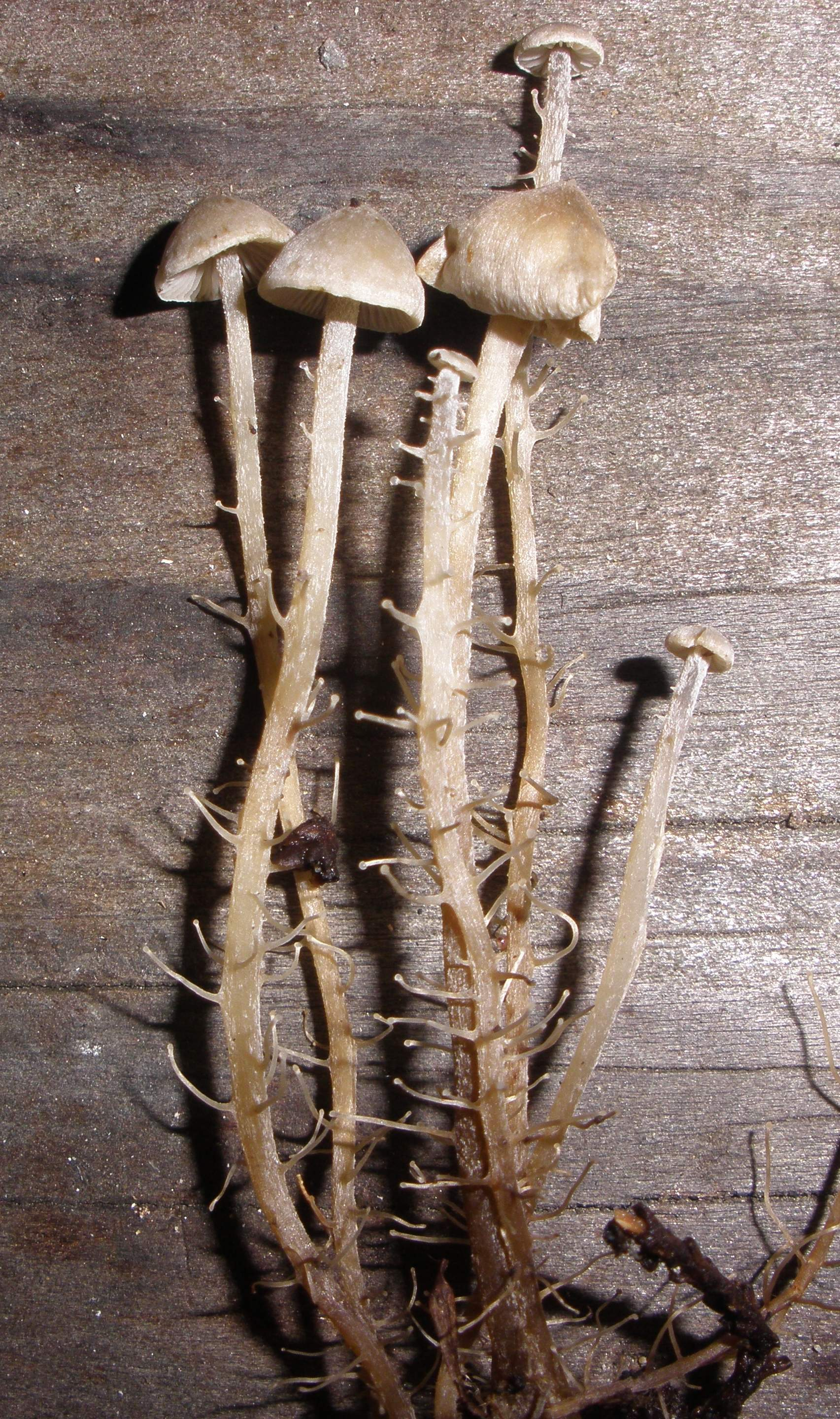 The mushroom Dendrocollybia racemosa (Pers.) R.H. Petersen & Redhead. Specimen photographed in Fort Bragg, Mendocino Co., California, USA.